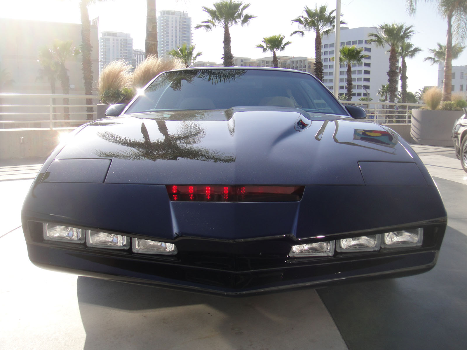 Long Beach Comic Expo 2012 - K.I.T.T. from Knight Rider